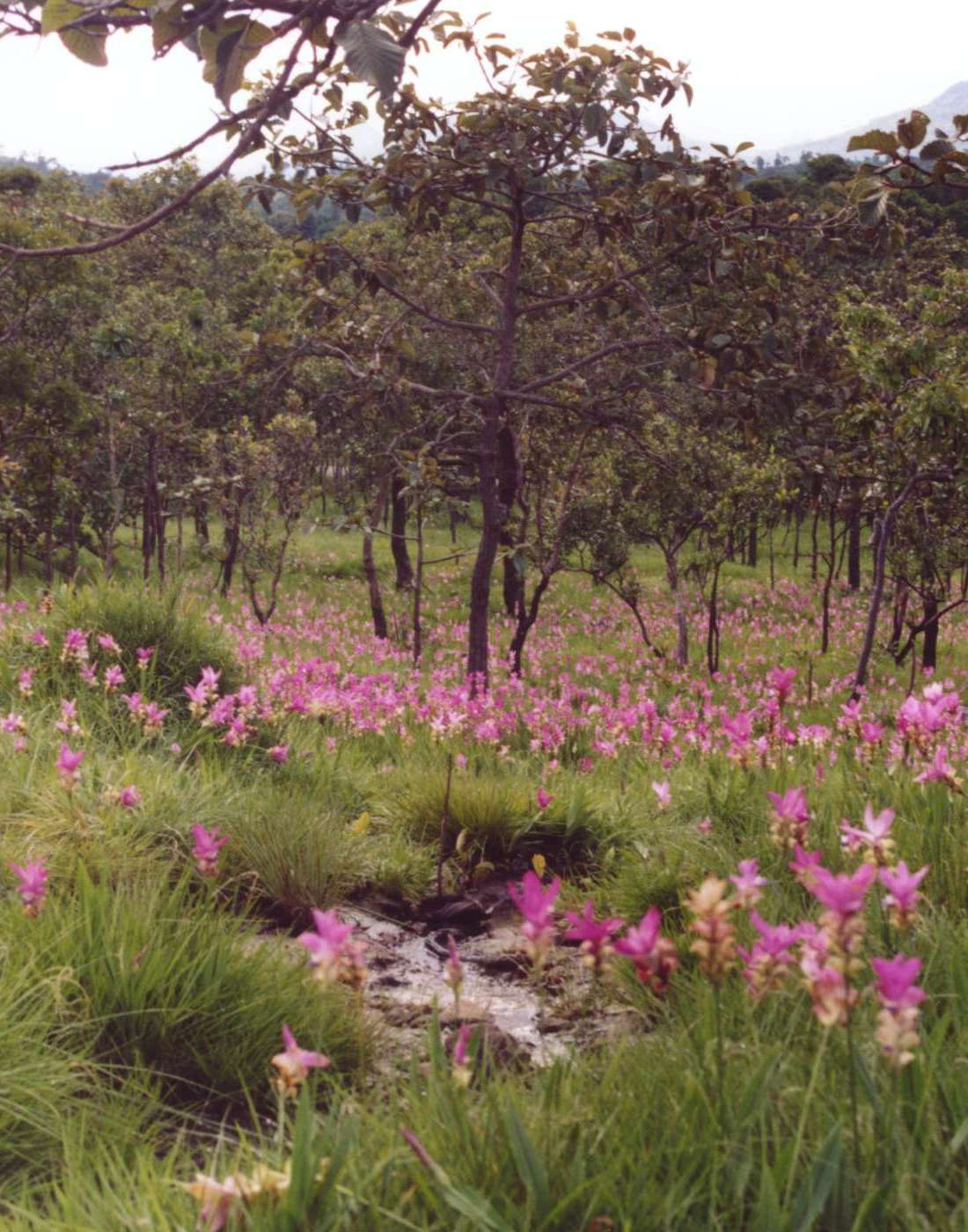 Curcuma alismatifolia (Gagnep.) - Siam Tulip. Photo taken in Pa Hin Ngam national park, Chaiyaphum province, Thailand. Photo taken by User:Ahoerstemeier on July 14 2003.